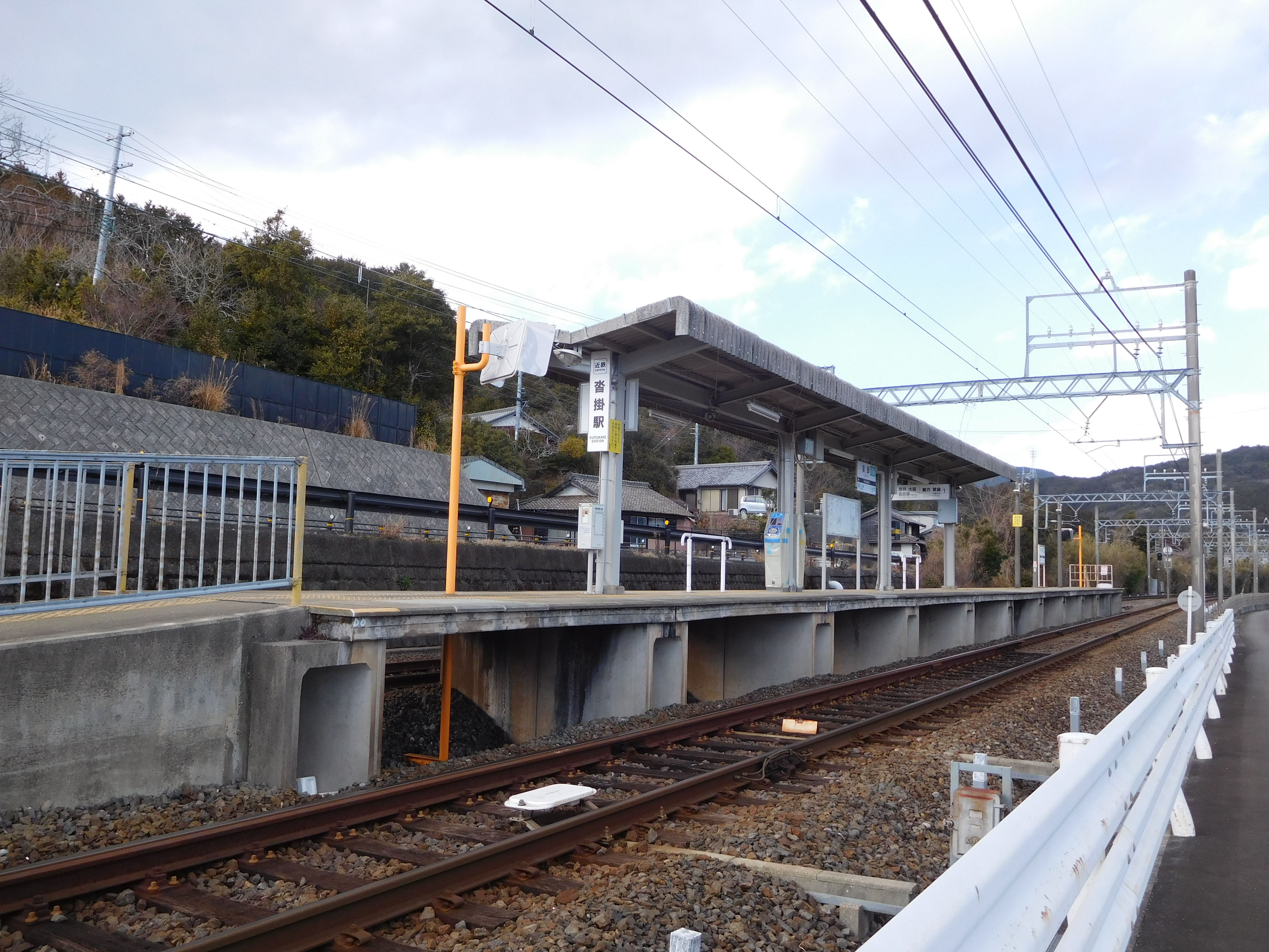 This is Kintetsu Shima line Kutsukake station in Shima, Mie, Japan.